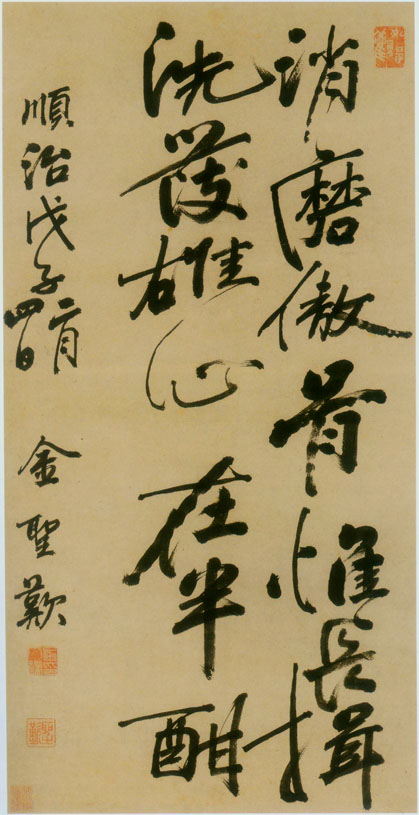 Calligraphy of Jin Shengtan